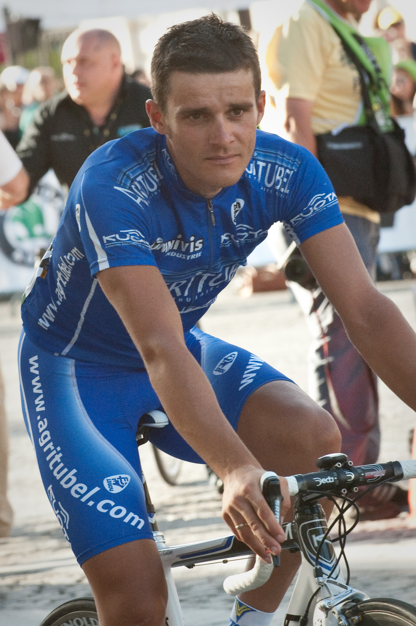 Tour de France 2009 - Parade Lap